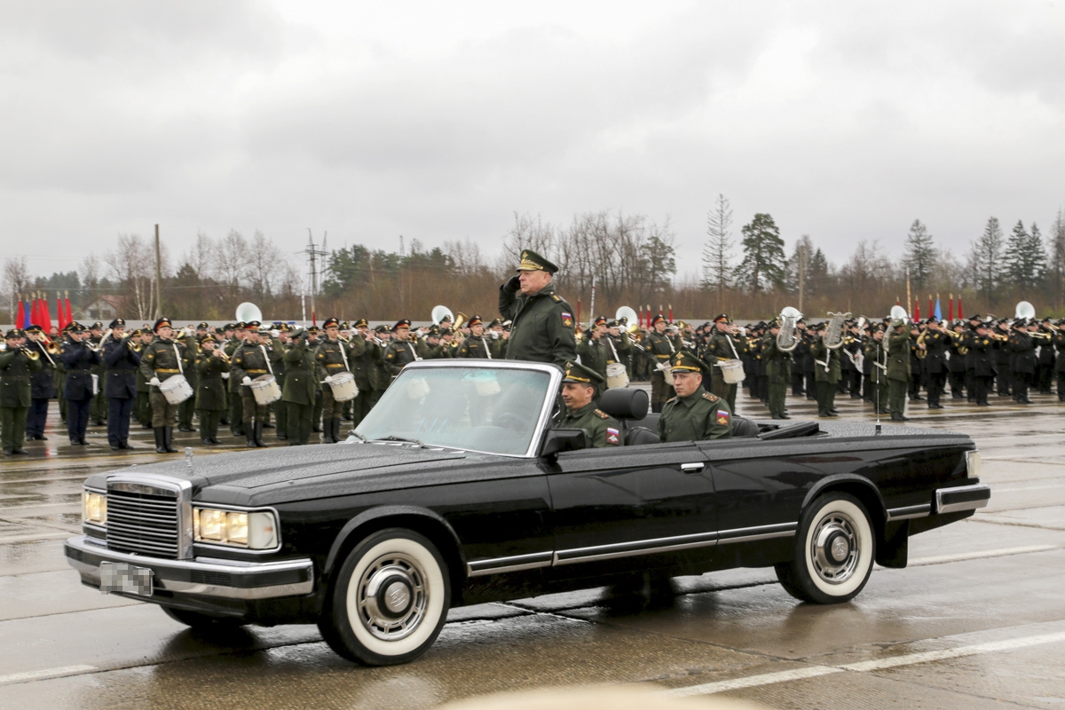 ZiL-41041 AMG.